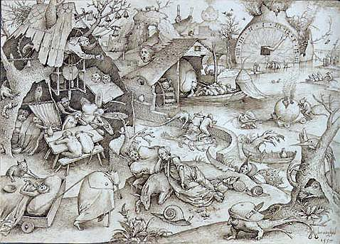 Pieter Bruegel the Elder: The Seven Deadly Sins or the Seven Vices - Sloth